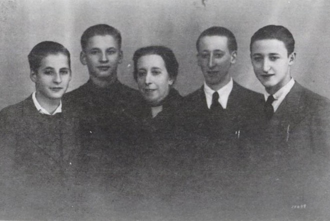 Sofia Alonso Moreno with her Lamamie de Clairac Alonso sons